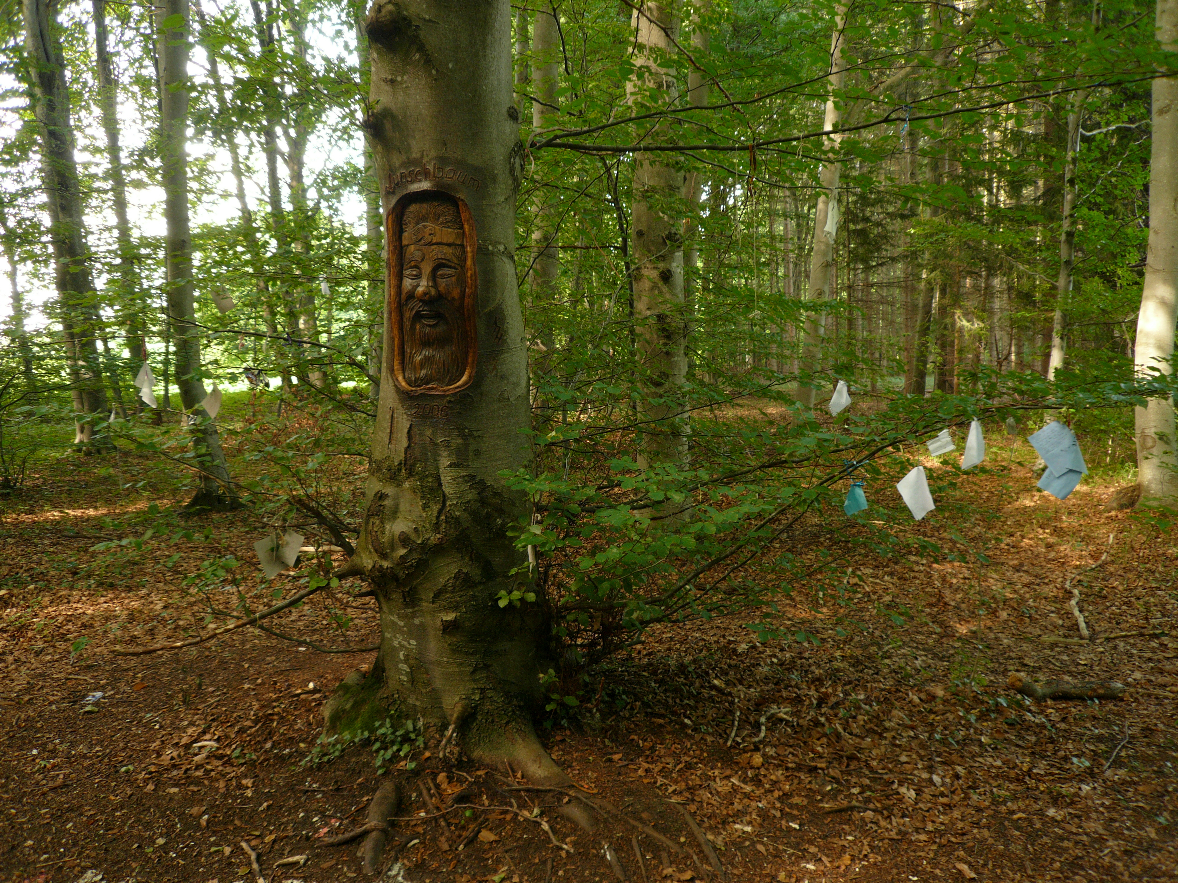 "Wish tree" on Pfullinger Berg (Schwaebische Alb). People attach papers with their wishes, hoping that the tree might fulfill them.